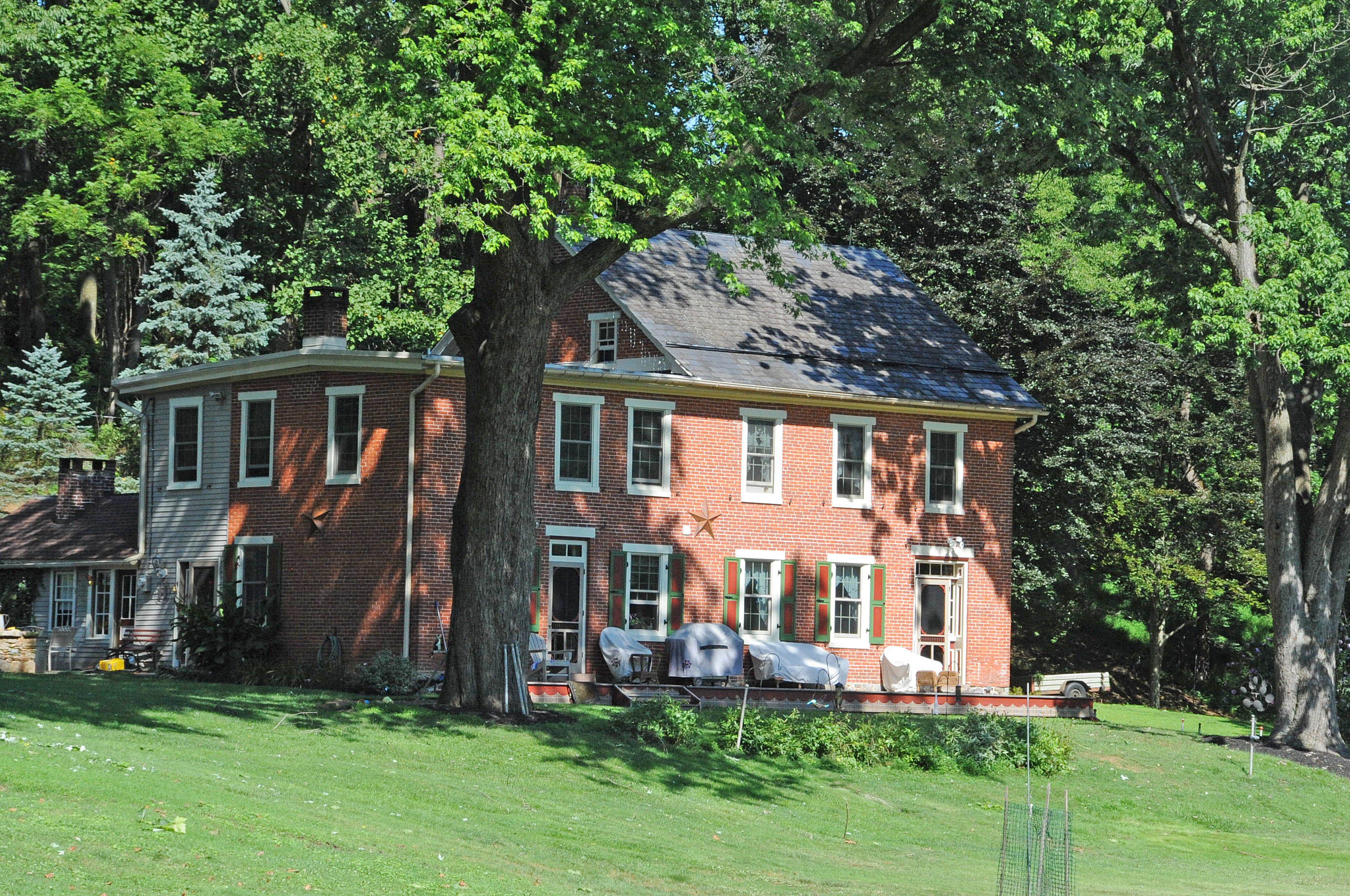 FARM WAS ESTABLISHED IN 1840 BUT THE MAIN HOUSE WAS BUILT IN 1870